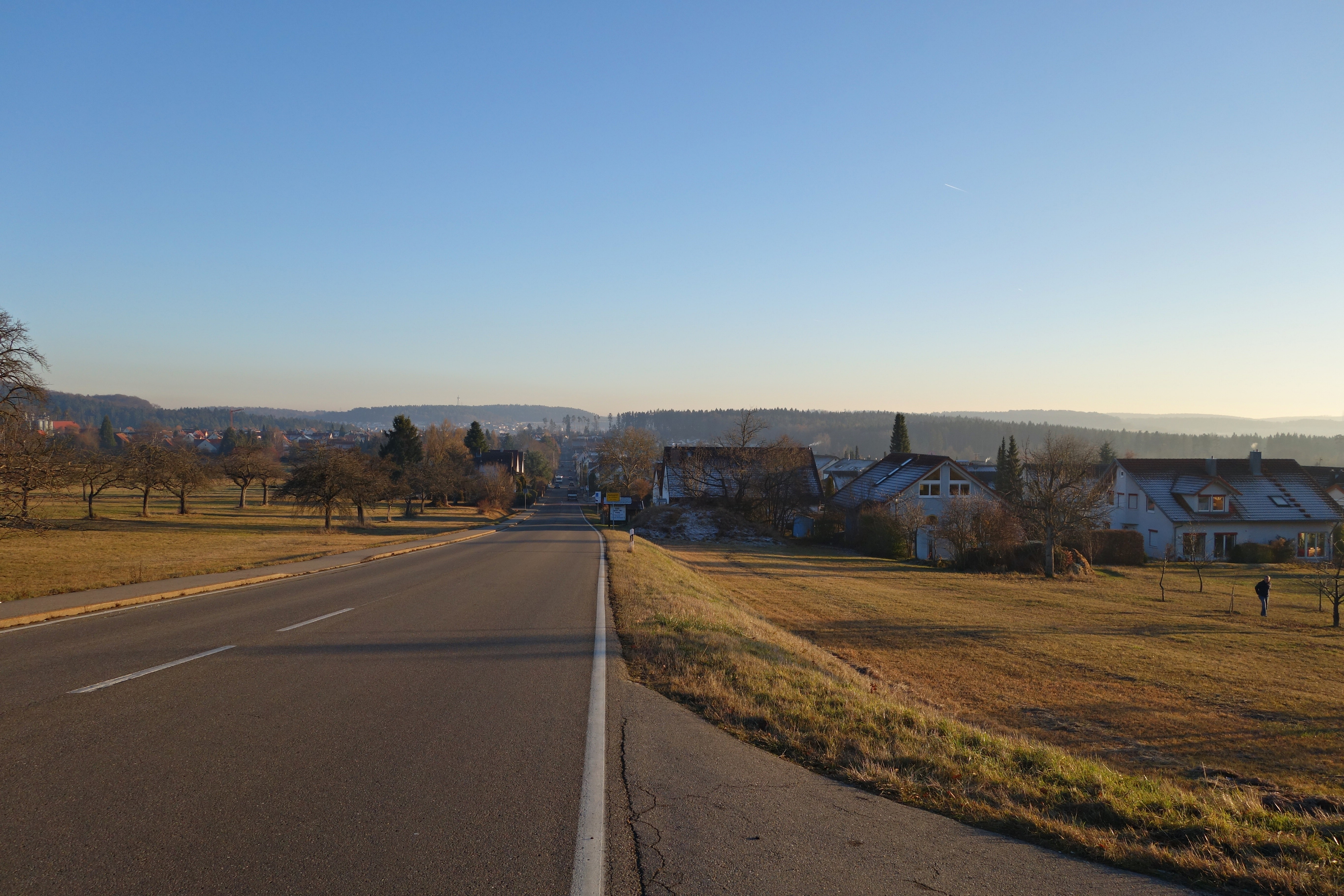 Neuhengstett, a southwestern German village in the state of Baden-Wurttemberg, viewed from the Northwest. The picture was taken at the entrance to the village via Ottenbronner street, directly next to the district road ("Kreisstraße") K4309. Some parts of the neighboring village of Althengstett are visible in the background.